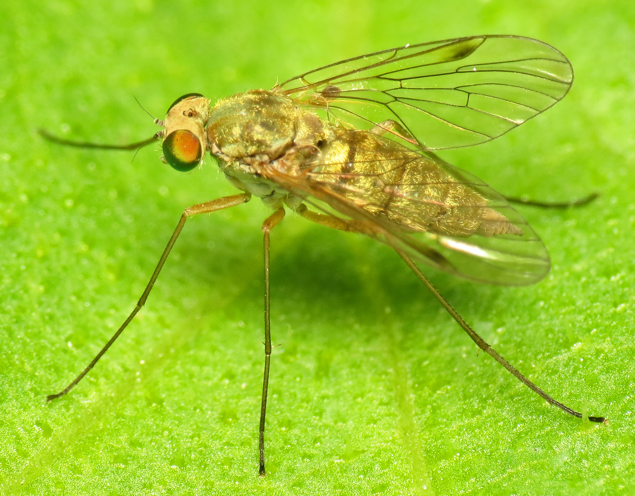 Observed several times in my Ipswich garden (TM16644502) 18-21 June 2014. ID confirmed by Malcolm Smart